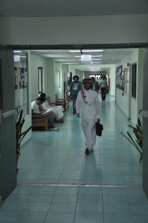 YUC_College